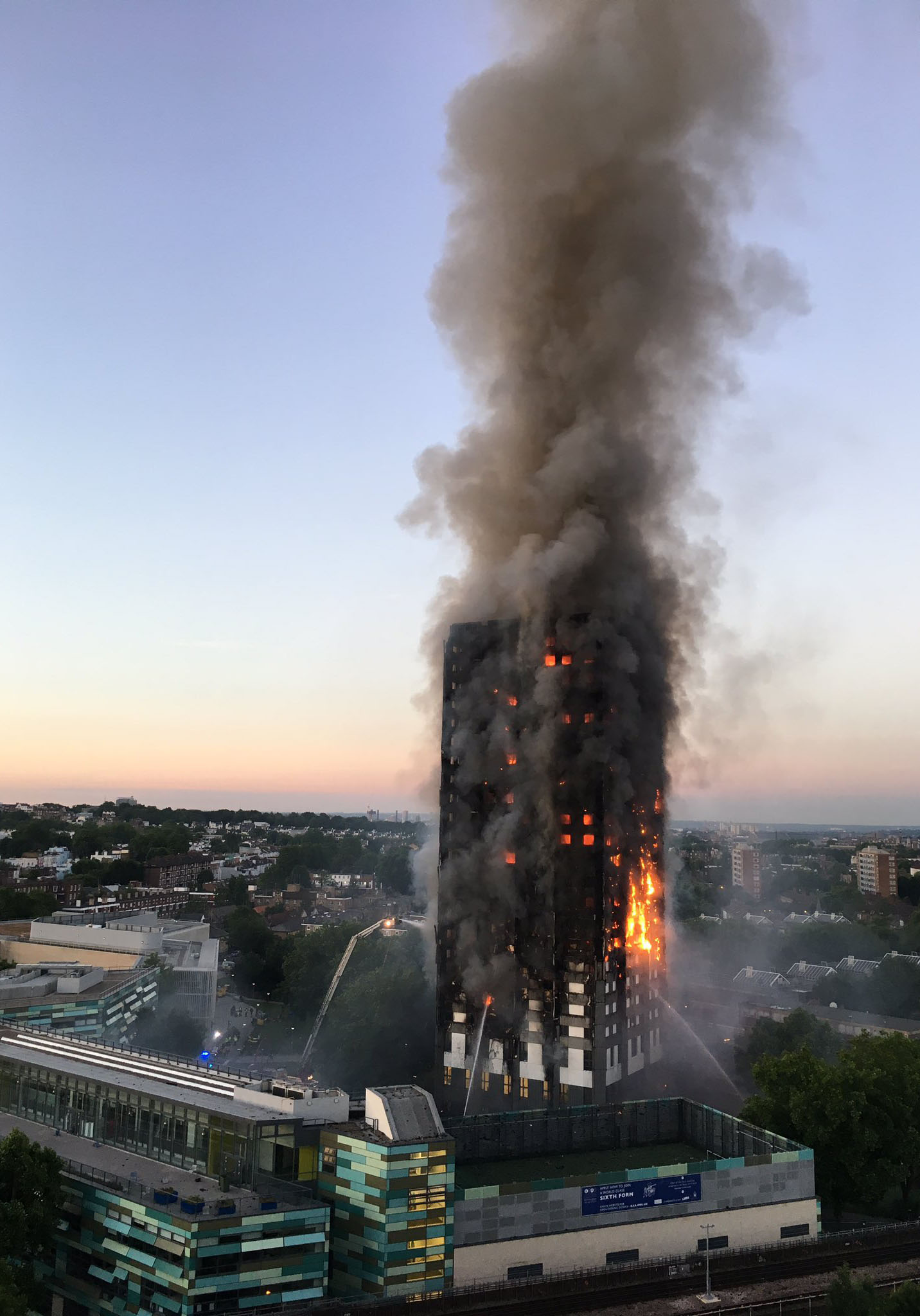 Grenfell Tower fire, 4:43 a.m.